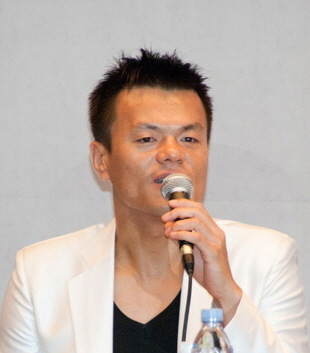 Park Jin-young (Founder of JYP Entertainment) in August 2010